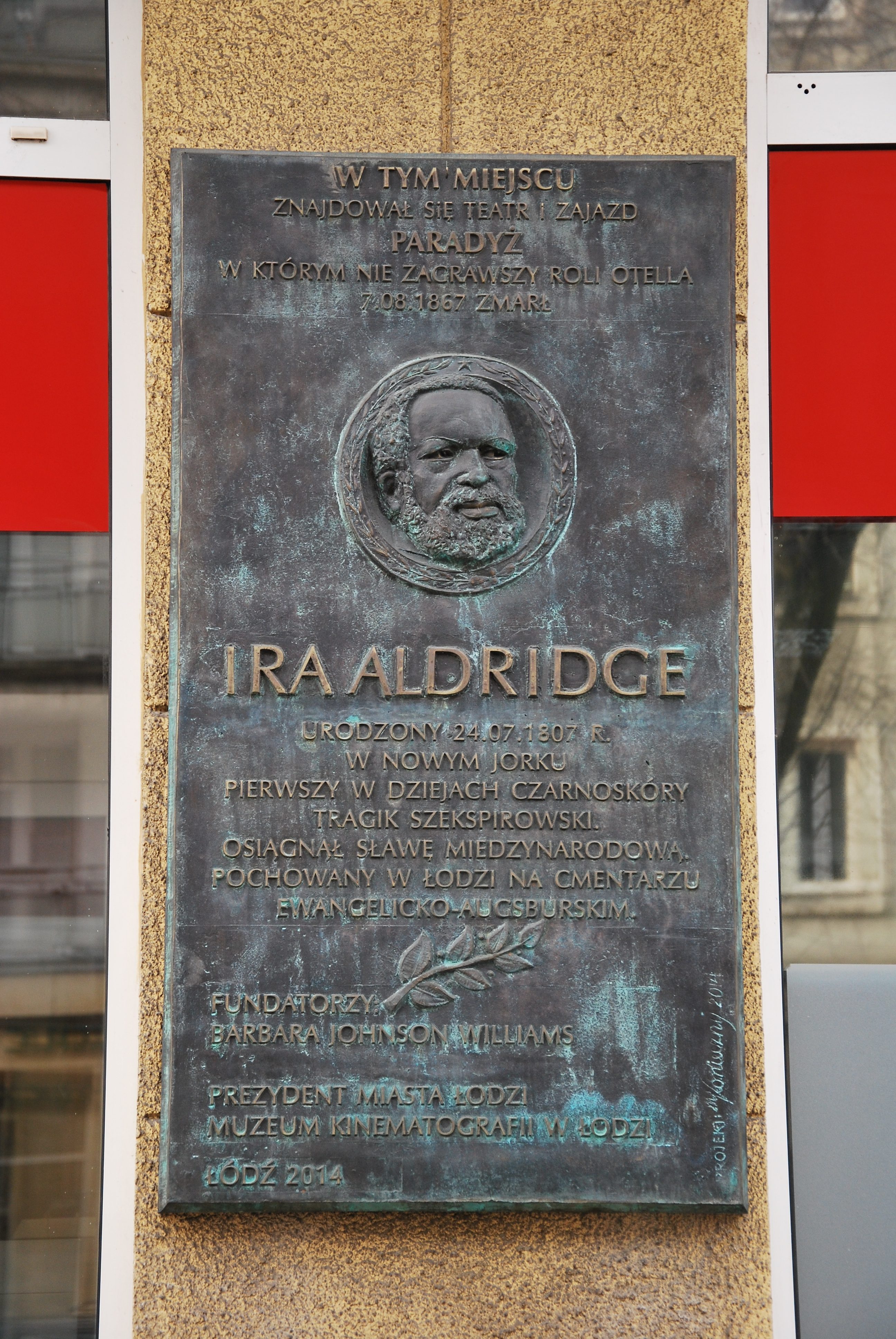 Ira Aldridge plaque, Łódź Piotrkowska Street